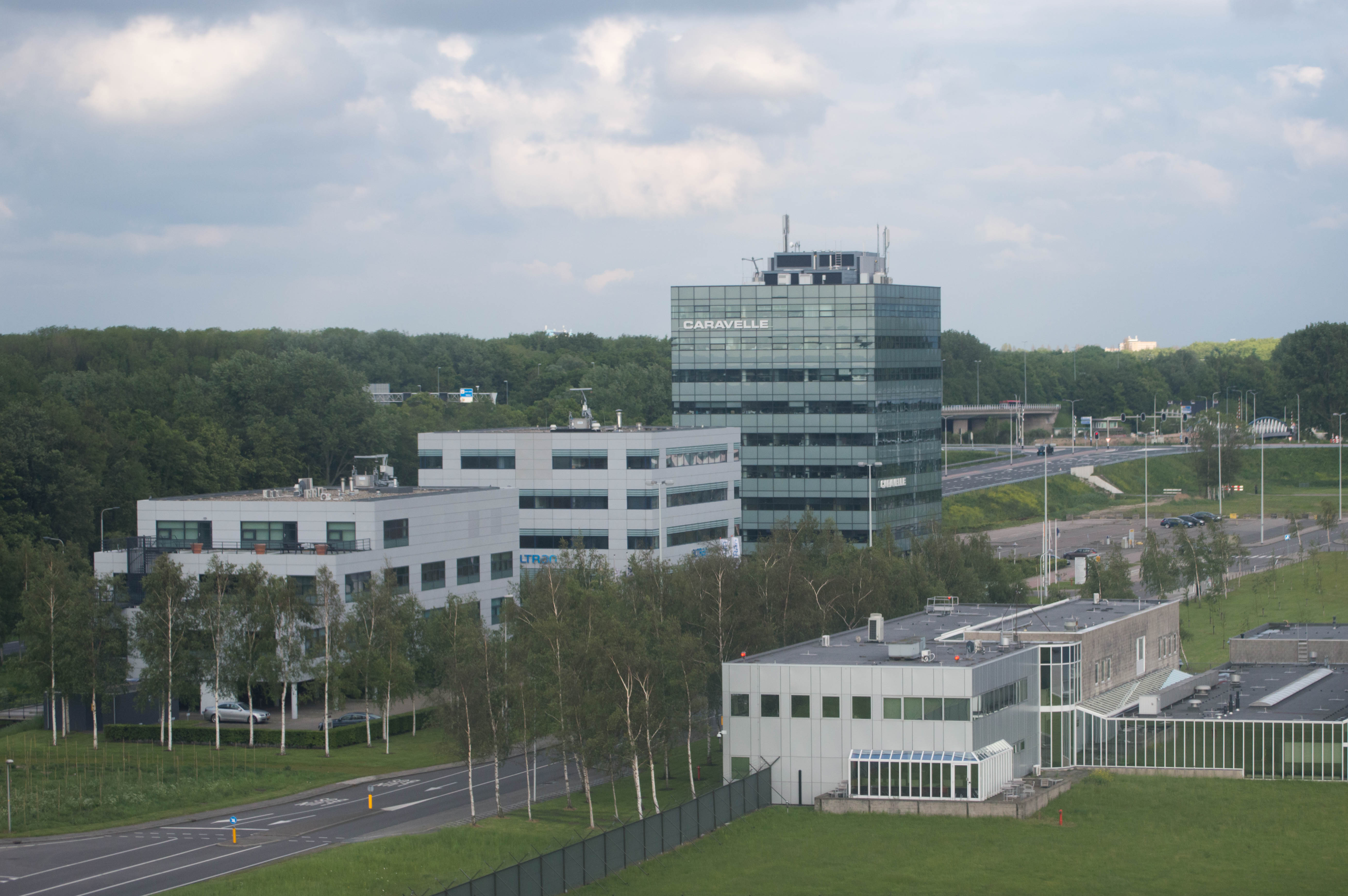 The Caravelle Office Building in Schiphol Oost, seen from Estonian Airways flight OV 0473.